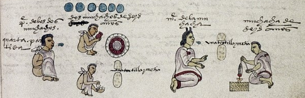 Codex Mendoza f. 58r detail: tasks and tortilla rations for six-year-olds